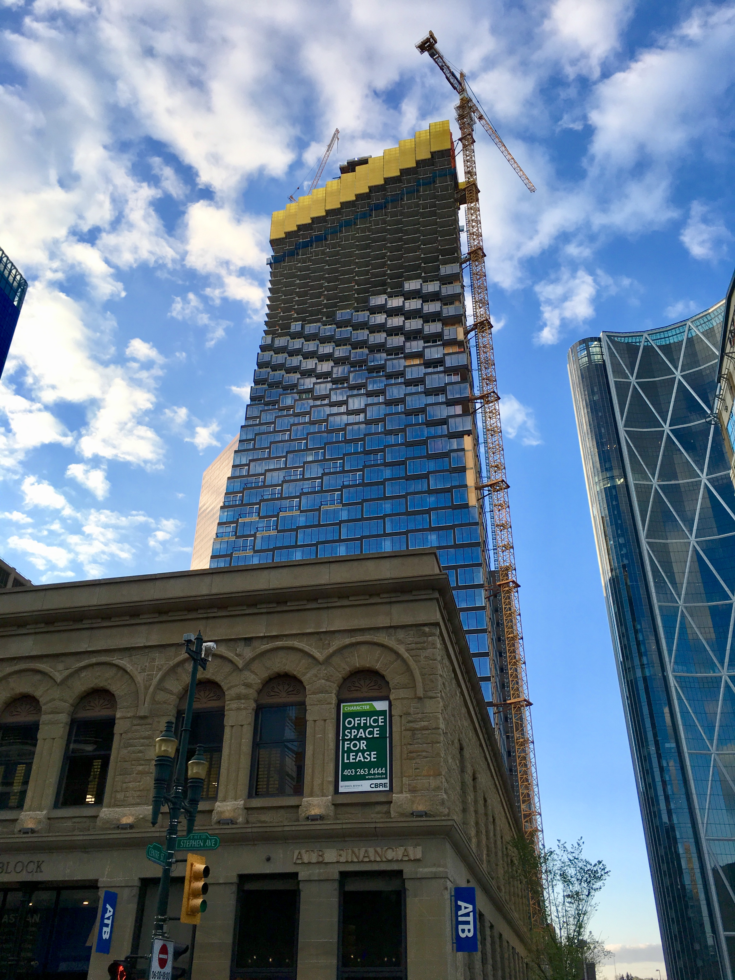 An image of Telus Sky under construction in May 2018